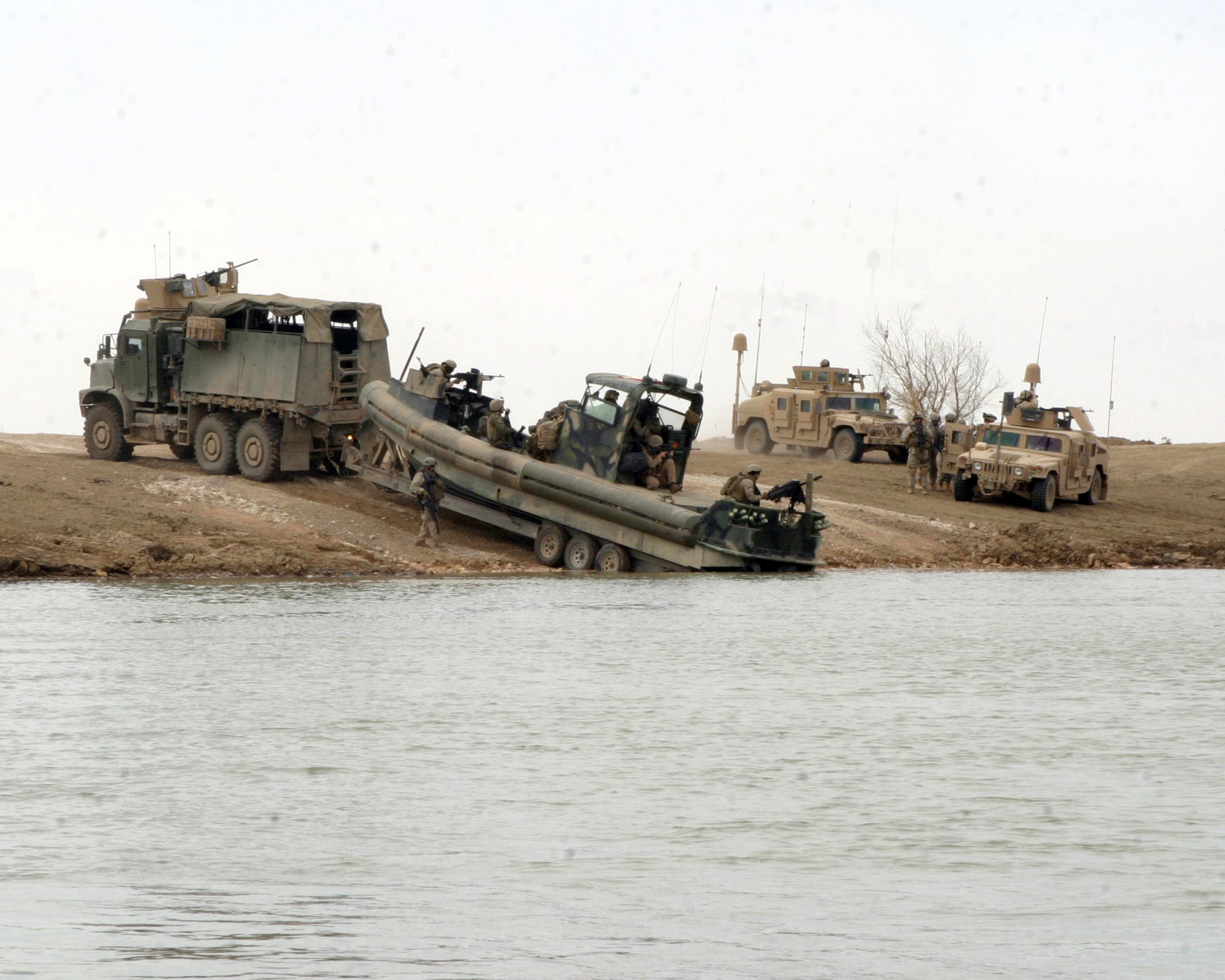 Riverine Squadron (RIVRON-), Detachment 3, 1st Brigade, 3rd Infantry Division, II Marine Expeditionary Force prepare to launch a Small Unit Riverine Craft (SURC) for Operation Gibraltar in Anbar Province. Location: Camp Ramadi, Iraq.